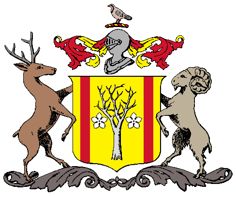 Bilaspur State Coat of arms This work is in the public domain in India because its term of copyright has expired. The Indian Copyright Act applies in India, to works first published in India. According to The Indian Copyright Act, 1957 (Chapter V Section 25), Anonymous works, photographs, cinematographic works, sound recordings, government works, and works of corporate authorship or of international organizations enter the public domain 60 years after the date on which they were first published, counted from the beginning of the following calendar year (ie. as of 2020, works published prior to 1 January 1960 are considered public domain). Posthumous works (other than those above) enter the public domain after 60 years from publication date. Any other kind of work enters the public domain 60 years after the author's death. Text of laws, judicial opinions, and other government reports are free from copyright. Photographs created before 1960 are in the public domain 50 years after creation, as per the Copyright Act 1911. This file may not be in the public domain outside India. The creator and year of publication are essential information and must be provided. See Wikipedia:Public domain and Wikipedia:Copyrights for more details. This image shows a flag, a coat of arms, a seal or some other official insignia. The use of such symbols is restricted in many countries. These restrictions are independent of the copyright status.